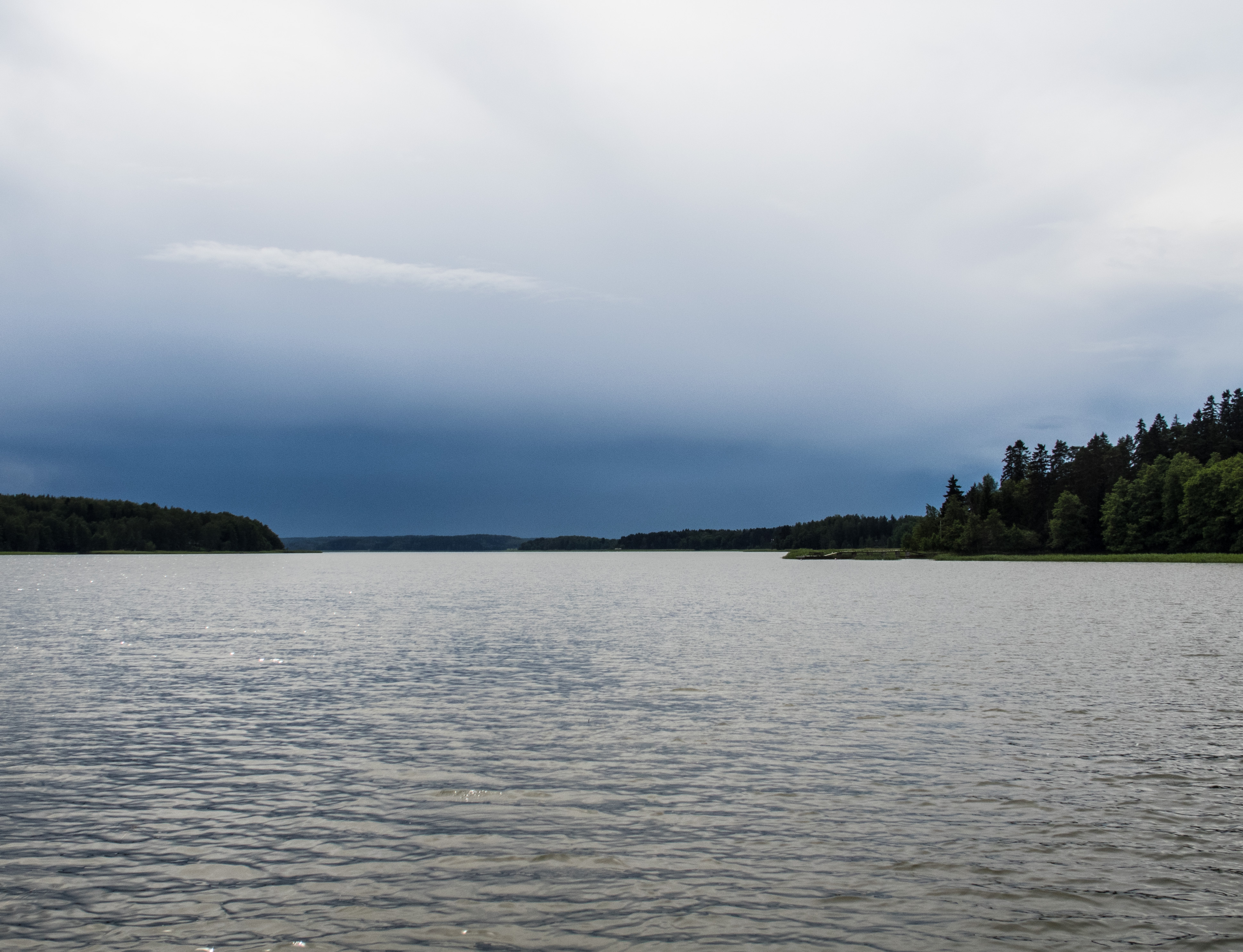 Halikonlahti, bay between mainland Finland (Kokkila village) and Kemiö island (Angelniemi), looking east from the ferry crossing the strait.